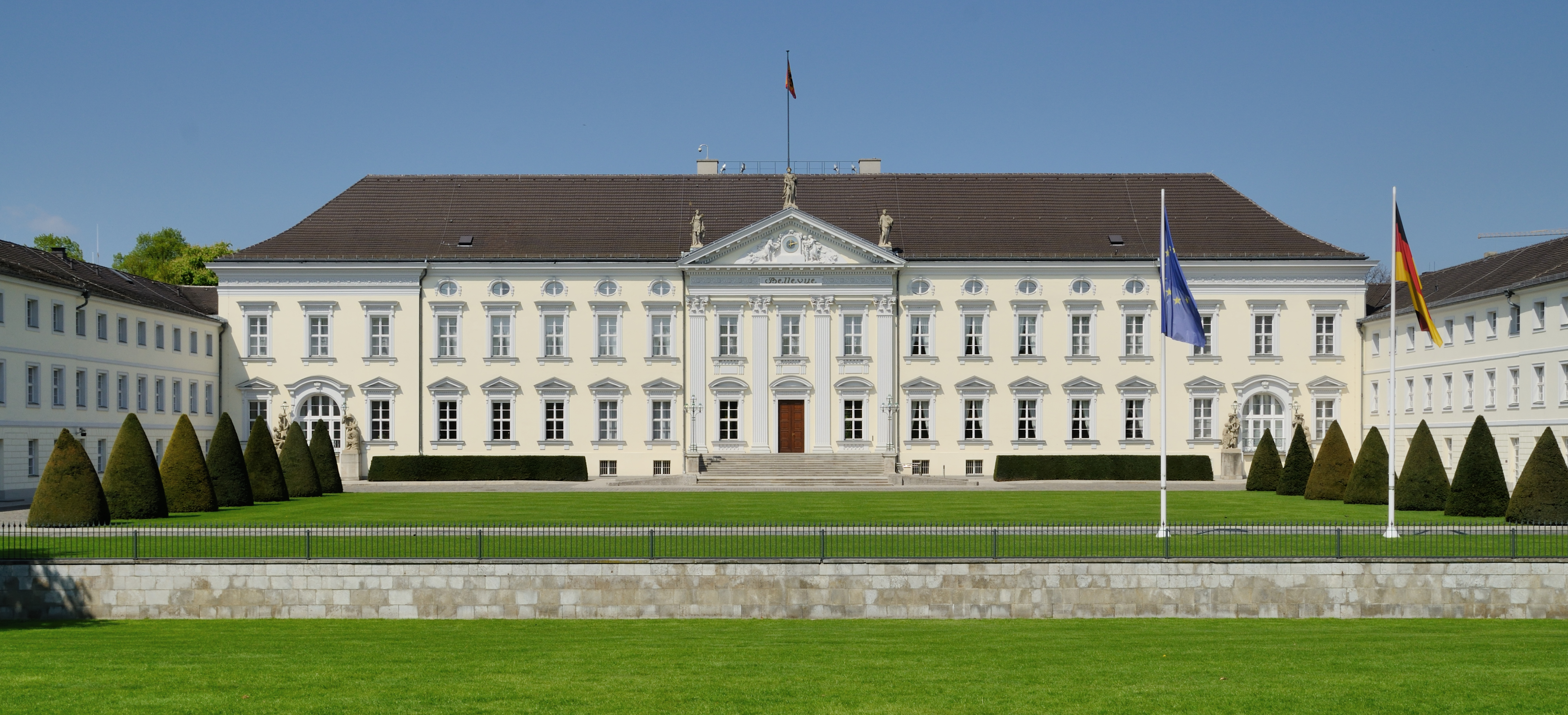 Berlin: Bellevue Palace